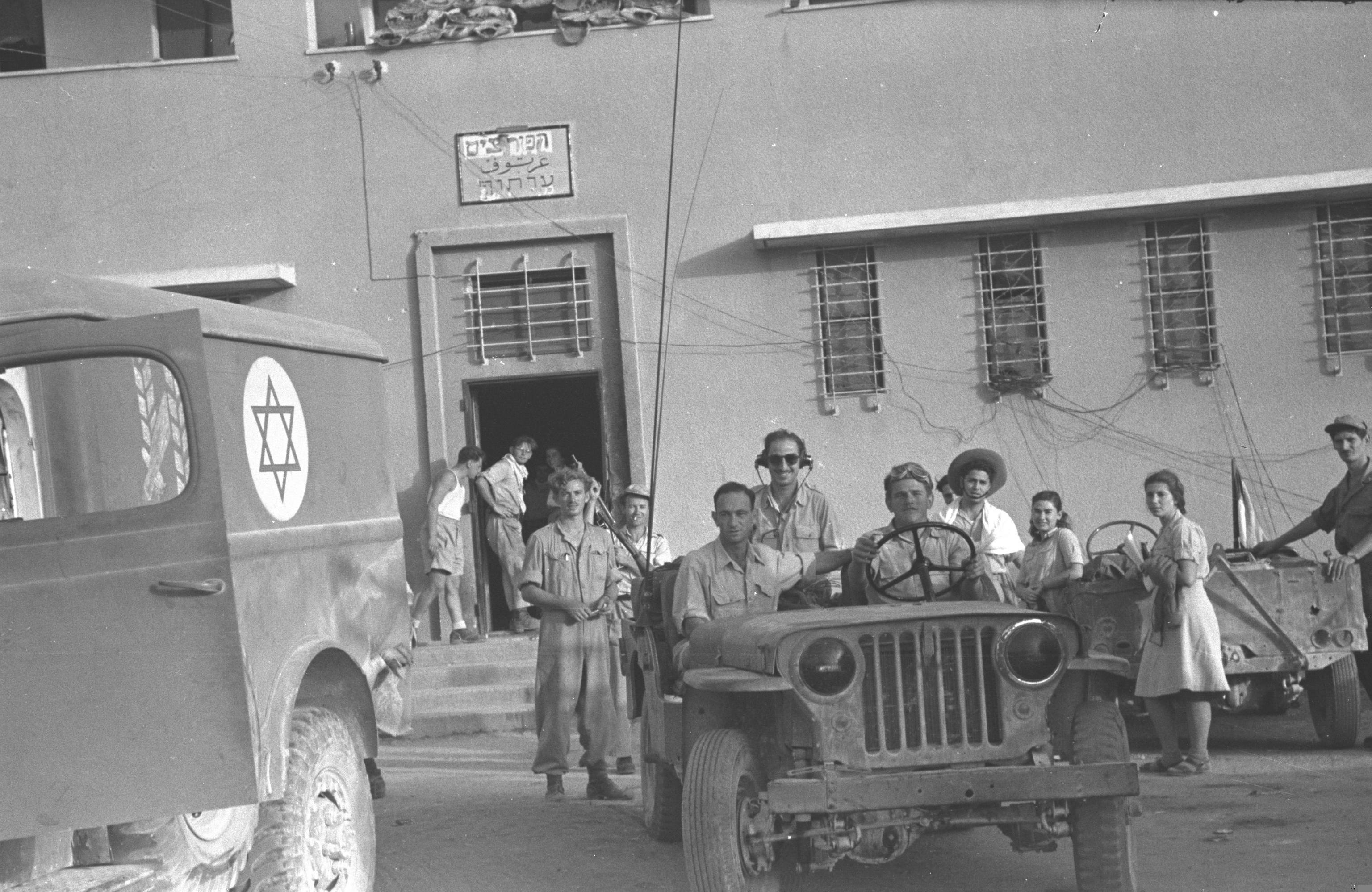 THE WAR OF INDEPENDENCE. IN THE PHOTO, IDF SOLDIERS OUTSIDE THE POLICE STATION IN HARTUV.